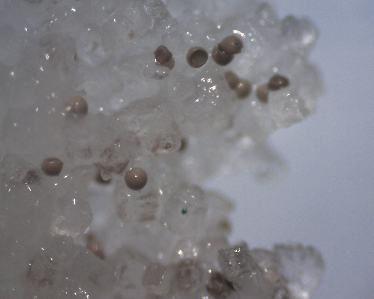 Artemia eggs 60 times enlarged